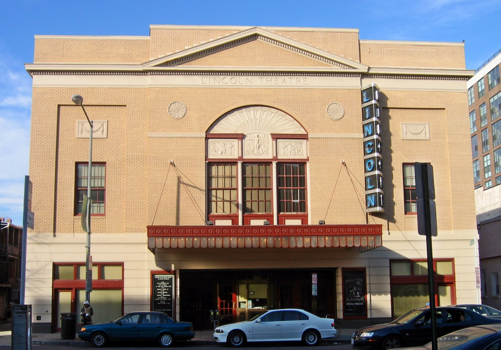 Lincoln Theatre on U Street in Washington, D.C.